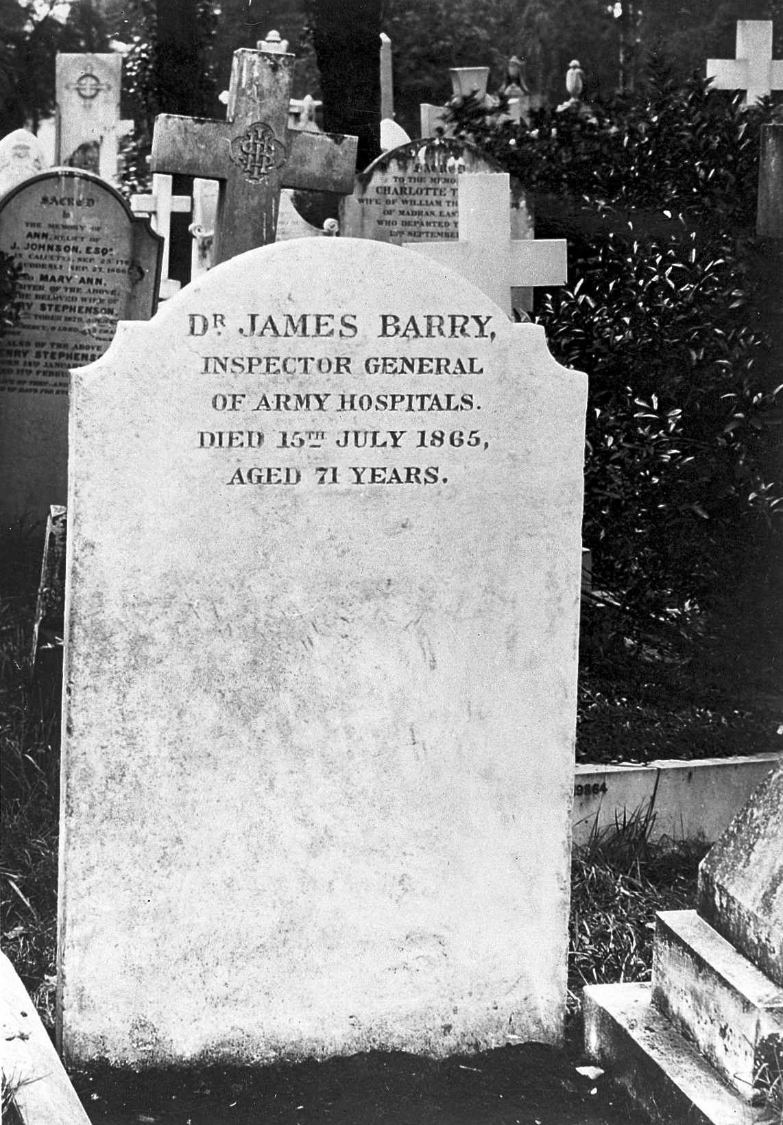 Dr. James Barry's headstone, Inspector General of Army Hospitals, Kensal Green Cemetery, London Archives & Manuscripts Keywords: James Miranda Barry